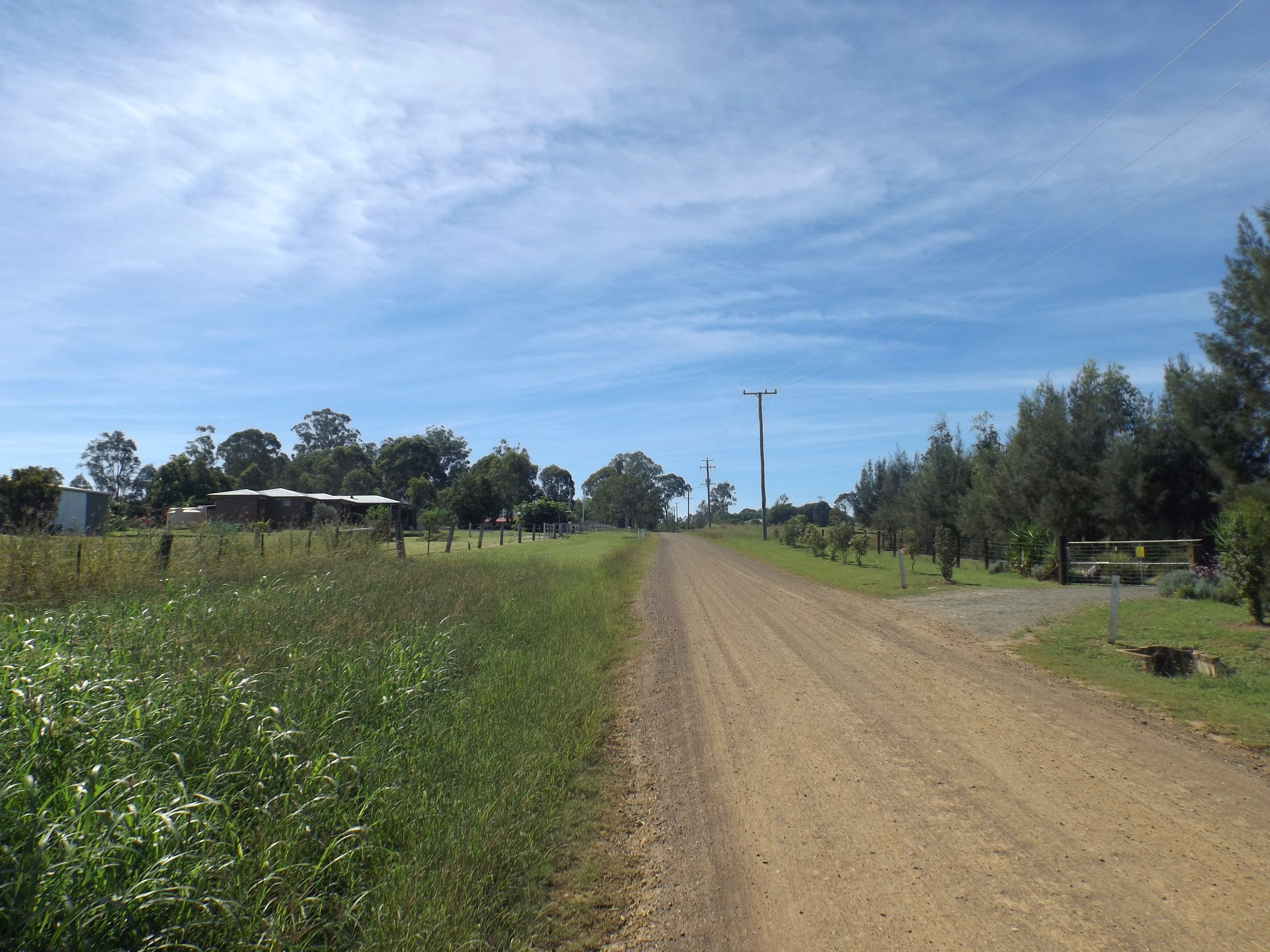 Photo of Hughes Road at Purga, City of Ipswich, Queensland, Australia.